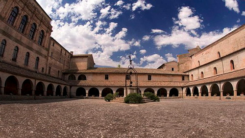 Fiastra Abbey